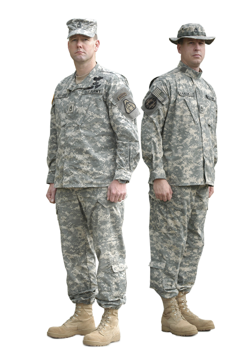 Two views of a soldier with the Army Combat Uniform.